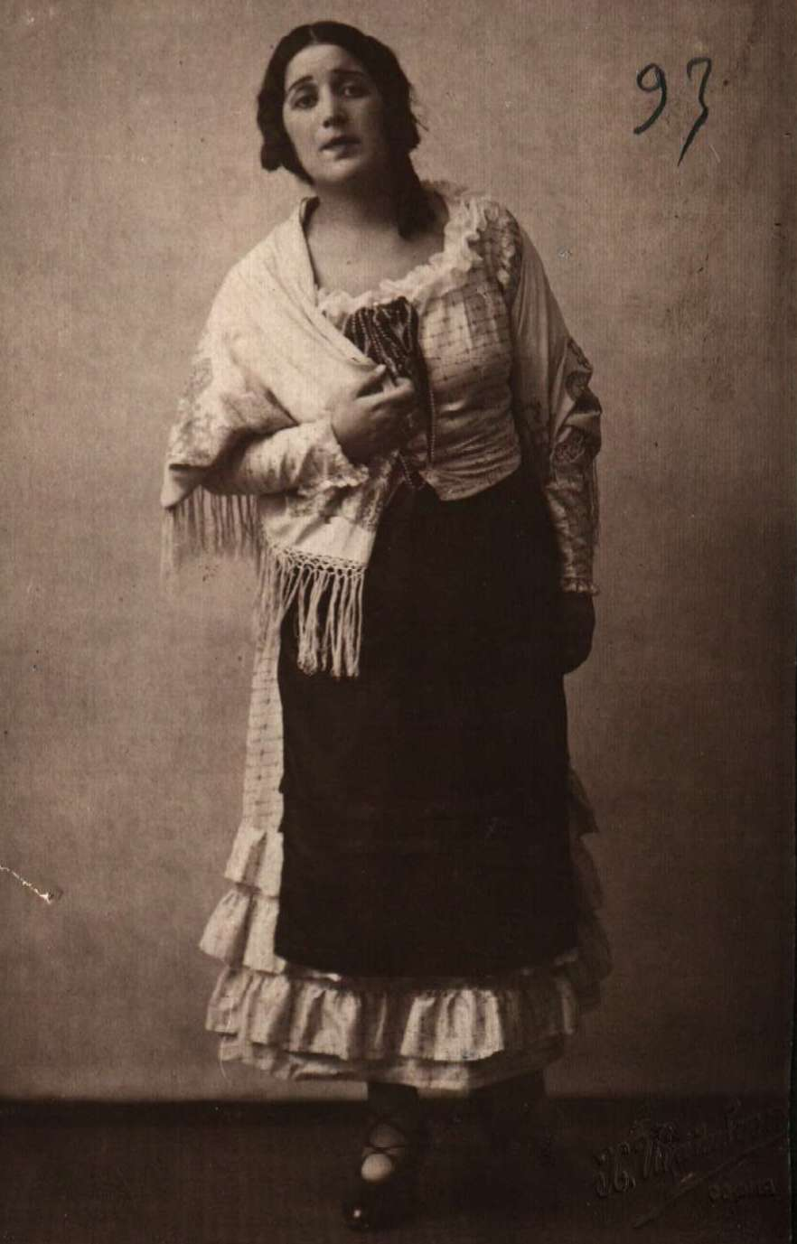 Bulgarian opera singer Mara Frateva